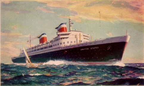 This is a picture postcard showing the SS United States. These postcards were sold on ship for passenger and souvenir use.